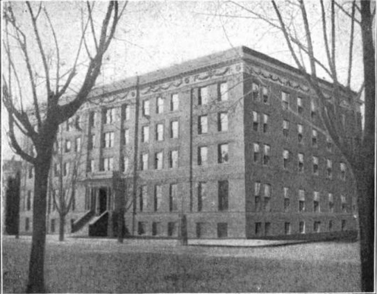 Rust Hall, named in honor of Elizabeth Lownes Rust.